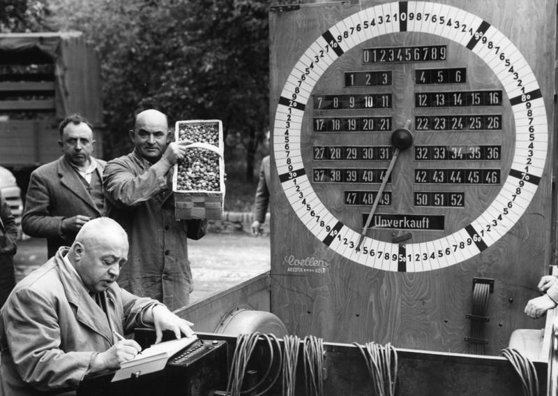 Cherry auction in Mosel-Saar-Ruwer, Germany